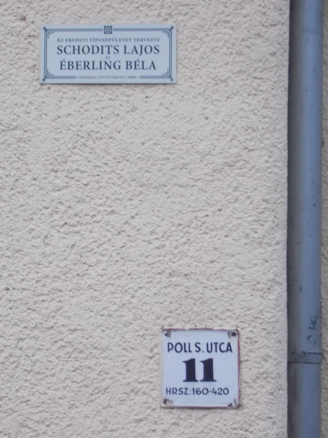 Misleading house number and street name! S.E.V. house type planned by Schodits&Eberling, built in 1911. - Kábel utca and Szent Imre utca 13? corner, Wekerletelep, 19th district of Budapest.